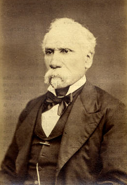 Francisco Maria de Sousa Brandão (1818-1892).